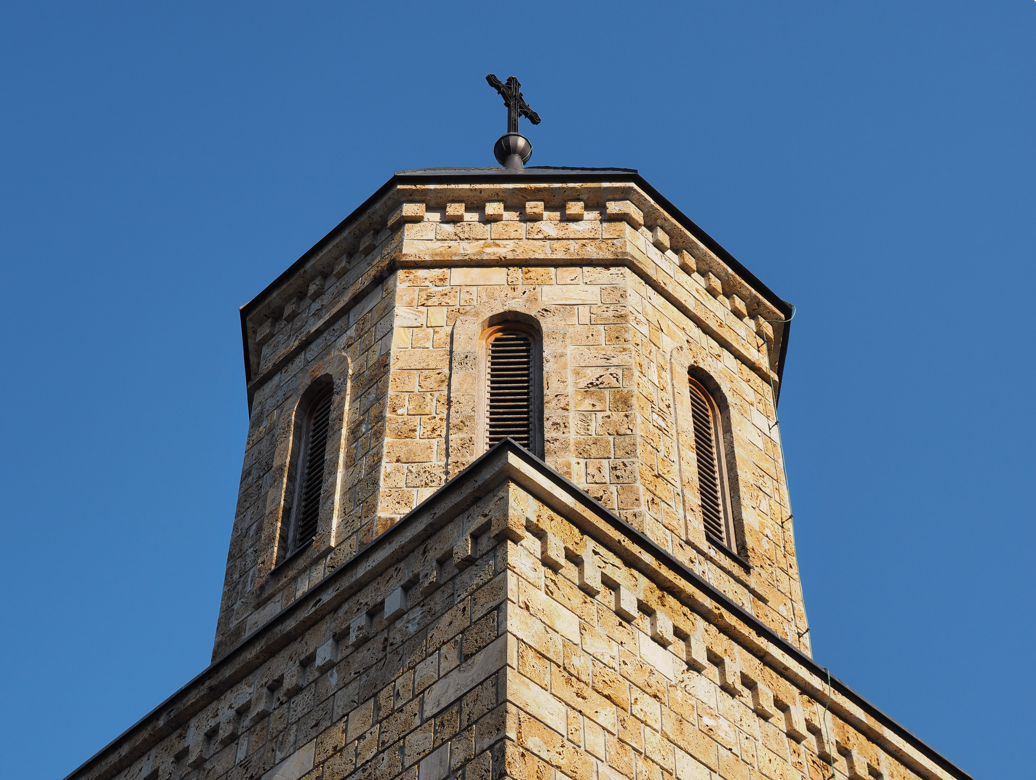 Bell tower, Monastery Moštanica, Republika Srpska Српски (ћирилица): Звоно, Манастир Моштаница, Република Српска